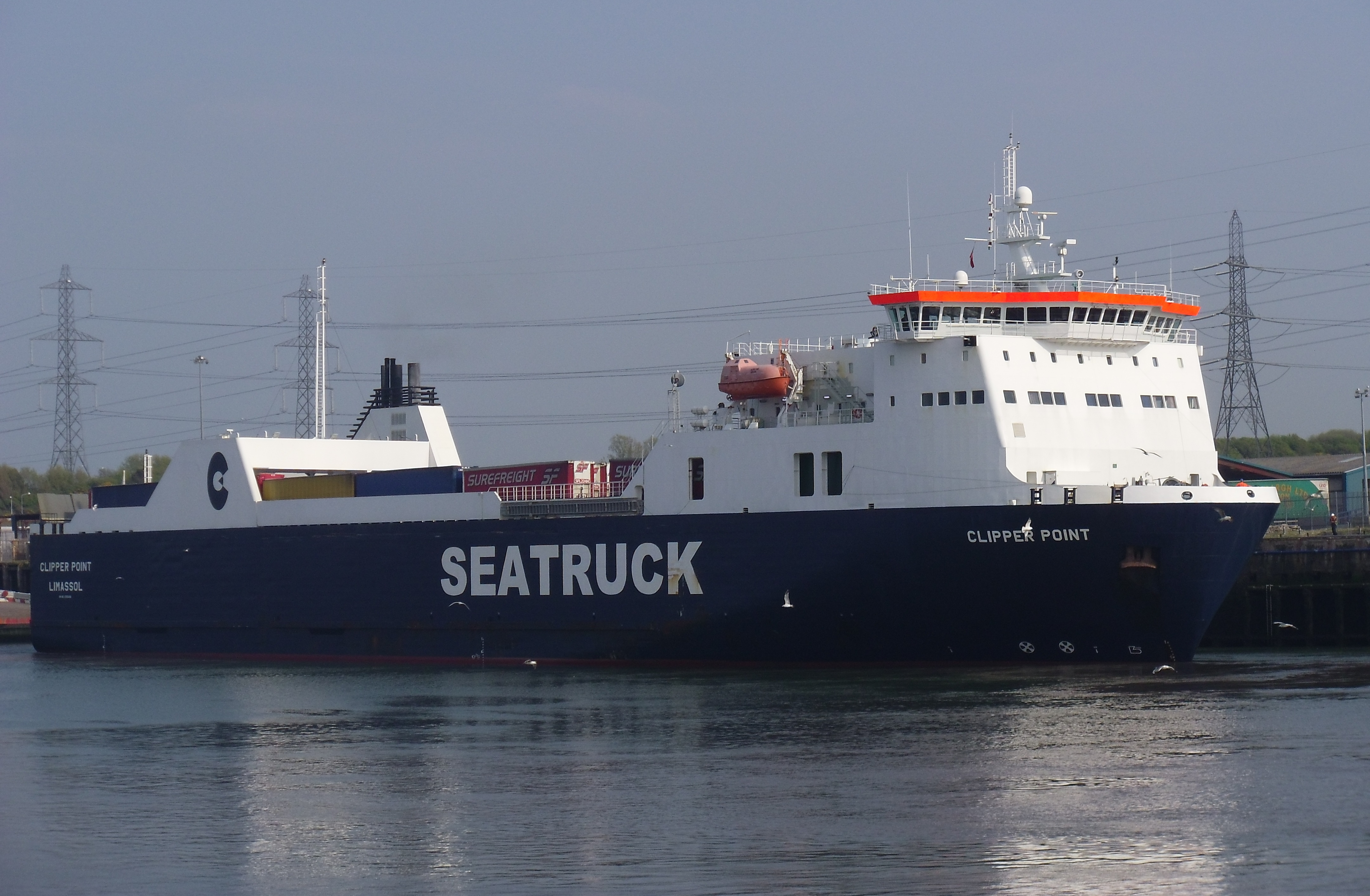 Clipper Point at Heysham; April 2011.